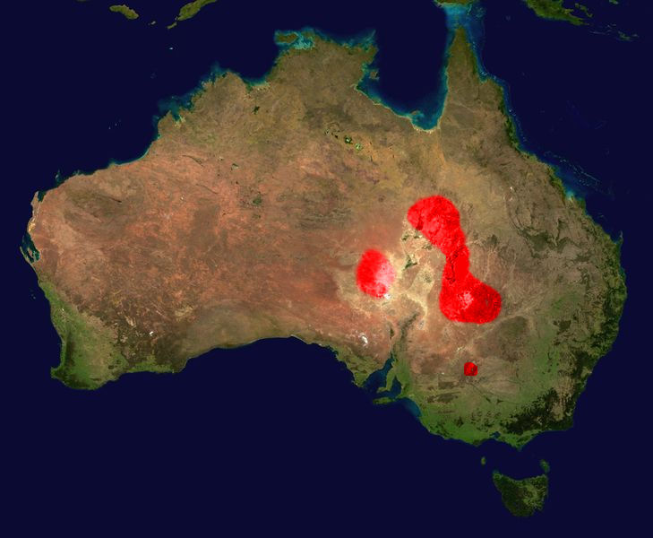 Fierce snake range